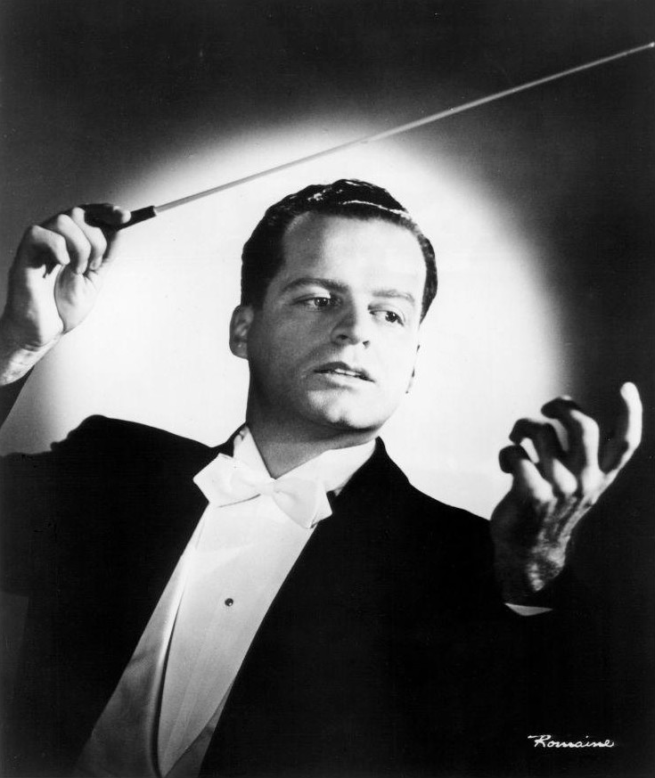 Photo of composer and conductor Carmen Dragon. He is the father of Daryl Dragon-the "Captain" of Captain and Tennille.